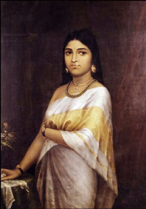 Picture of an elegant Keralite lady.